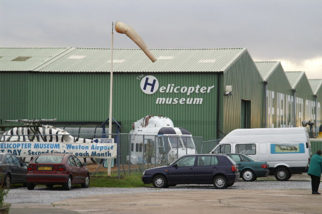 An external shot of the Helicopter Museum in Weston-super-Mare